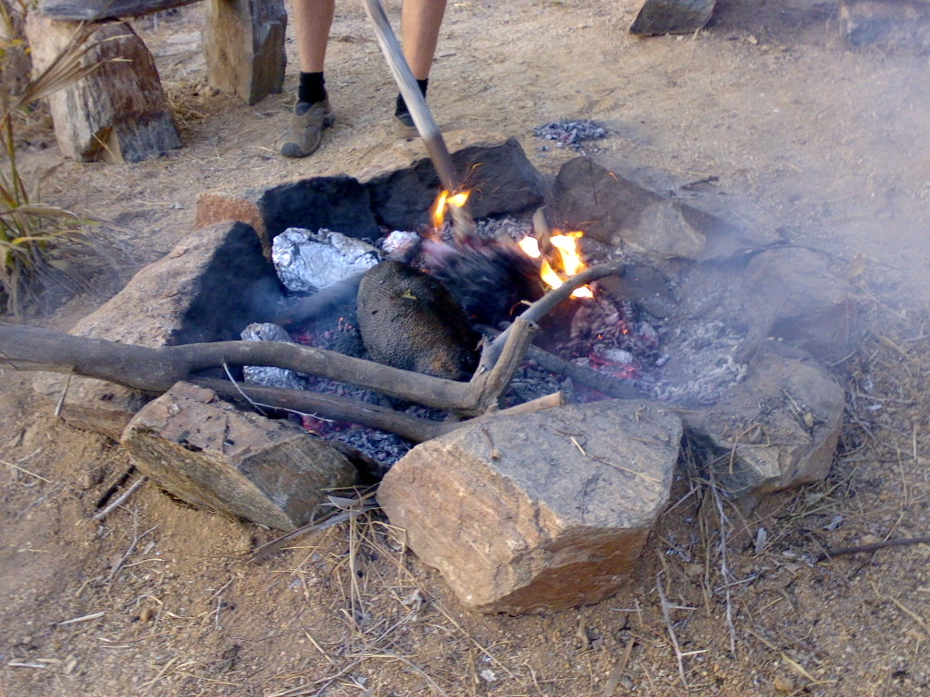 Breadfruit in the fire pit